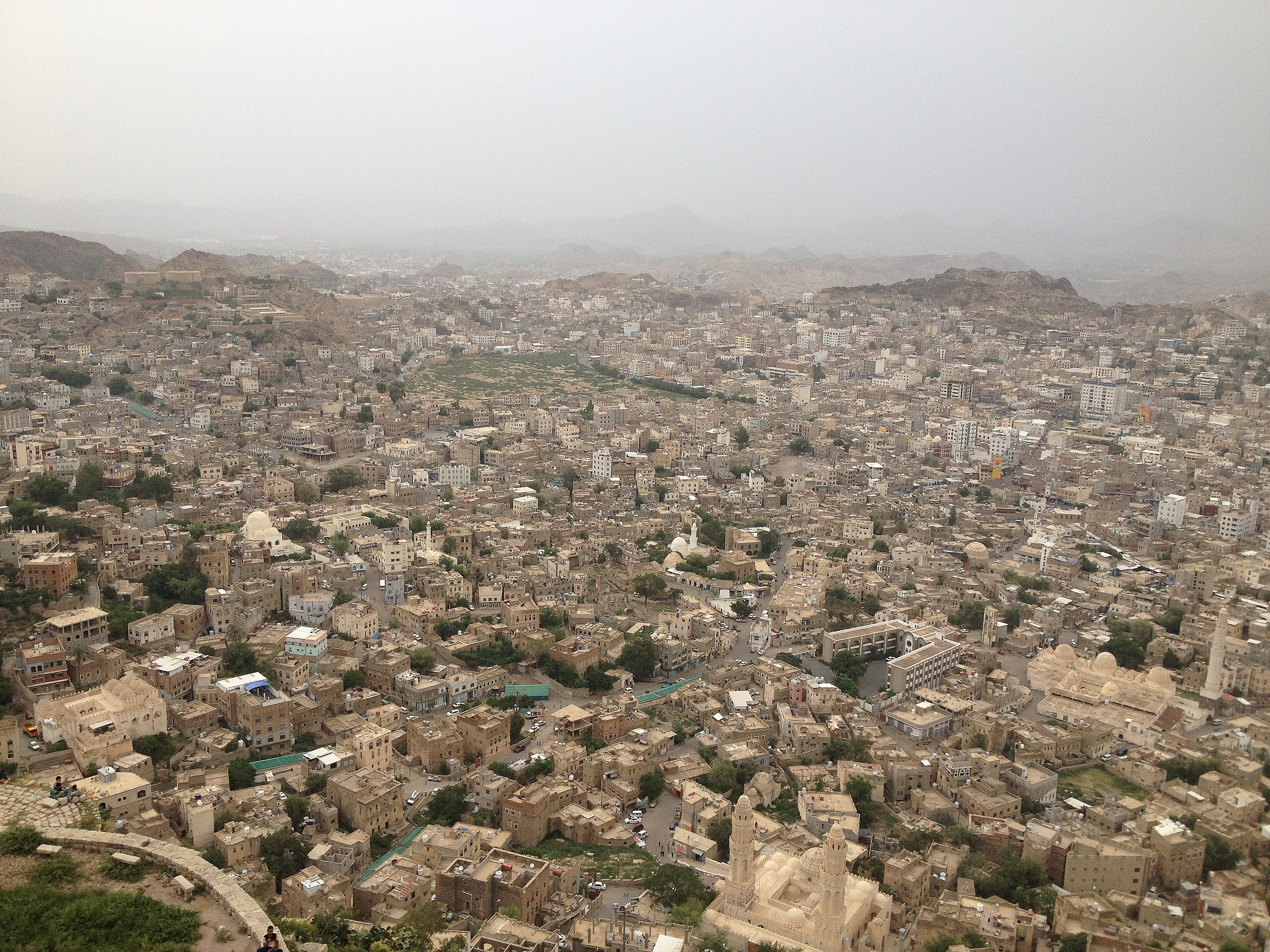 A view of Taiz city, Yemen from AlQahirah Castle